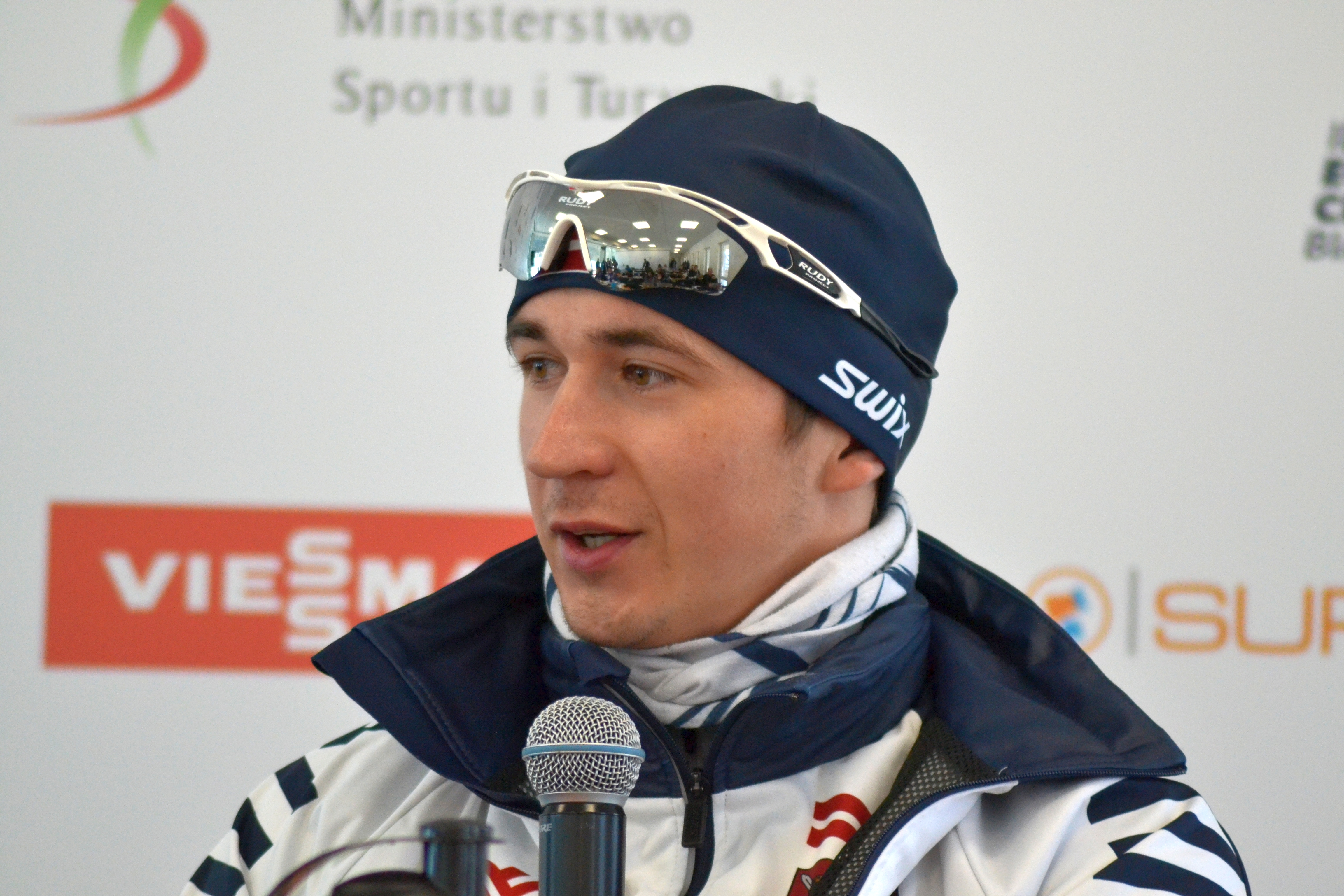 Open European Championships Biathlon 2017, Men's Pursuit race.